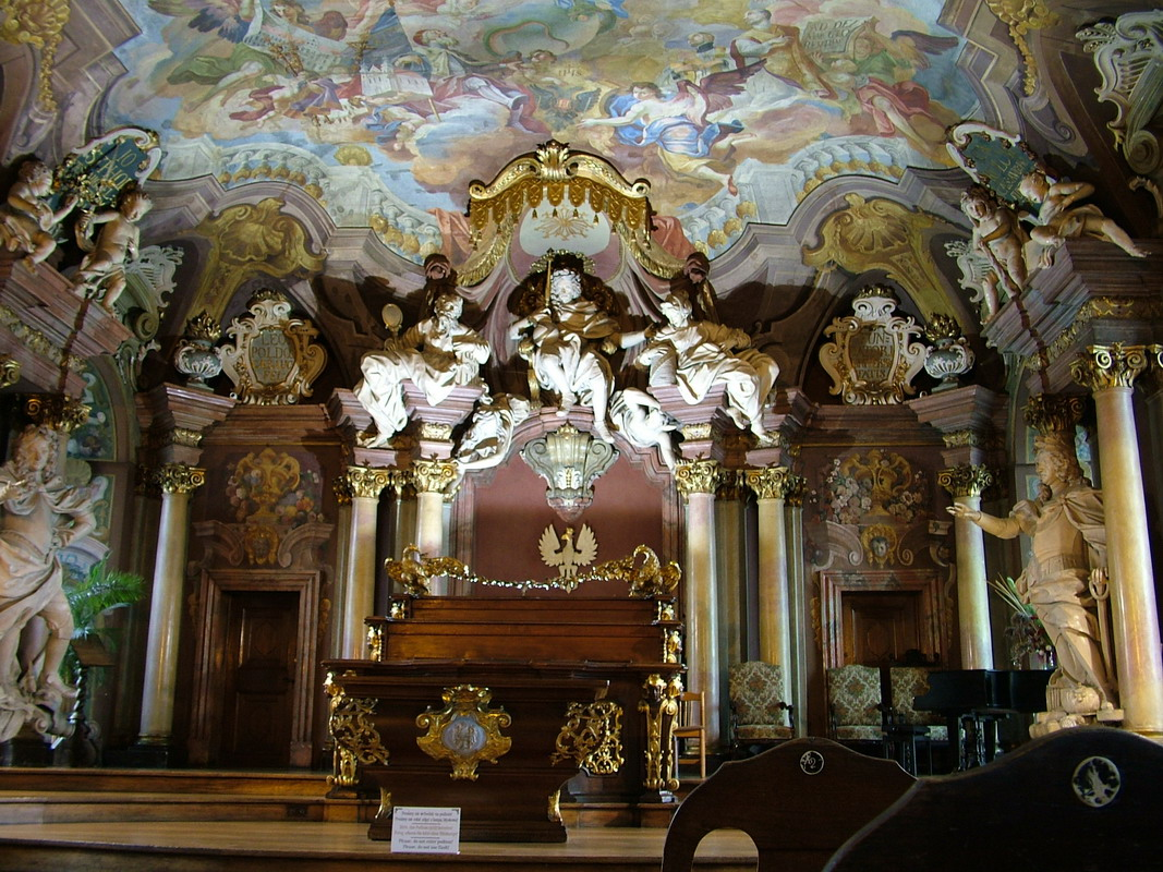 Wroclaw University - Aula Leopoldina Author: Stako 10:16, 22 September 2005 (UTC)